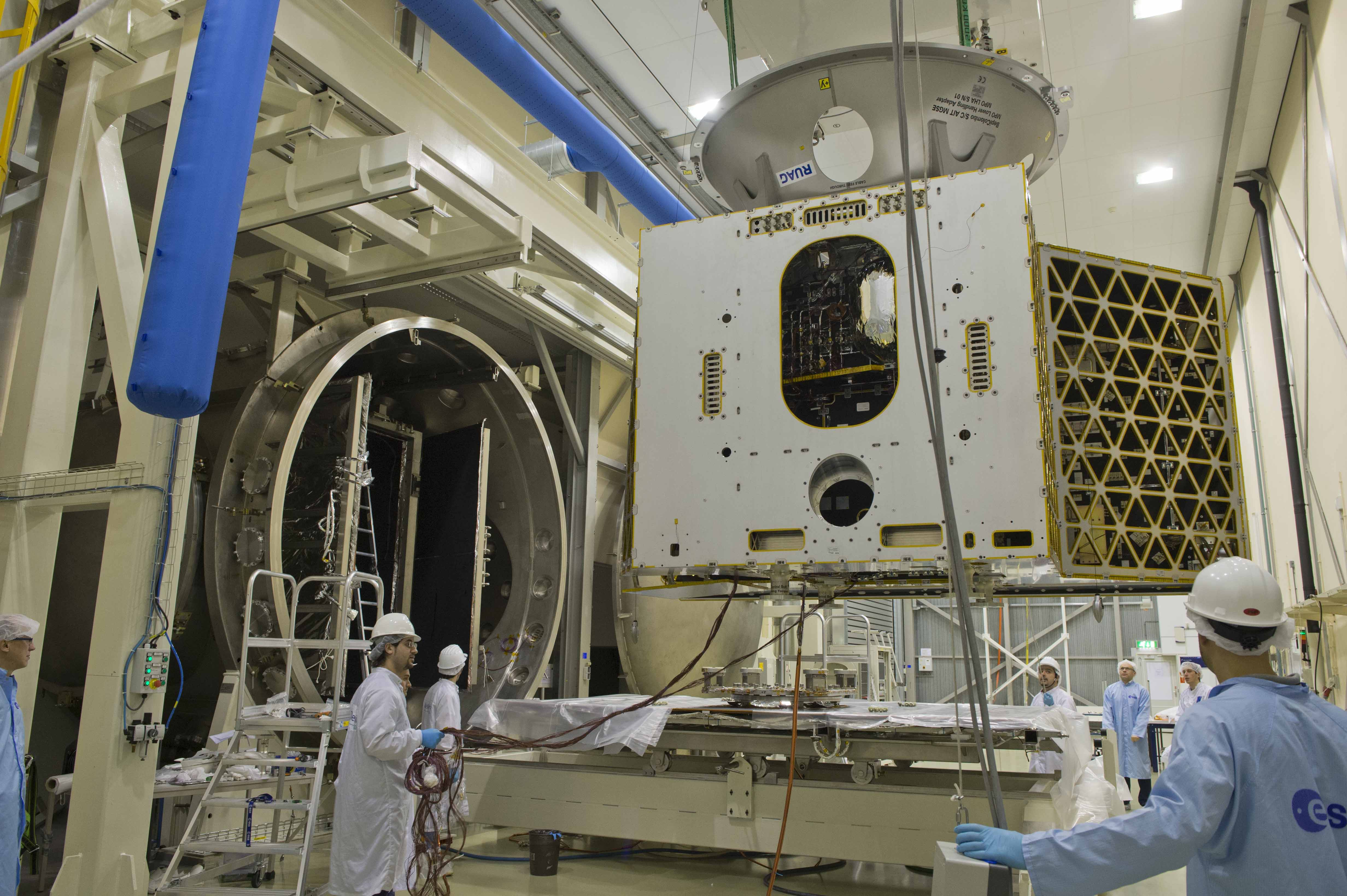 The Mercury Planetary Orbiter, part of ESA's BepiColombo mission to Mercury, placed in the Phenix thermal vacuum facility on 17 January 2012 in preparation for its 'bake-out'. After 23 days of sustained heating to remove potential contaminants the test was completed and the chamber reopened on 14 February 2013.